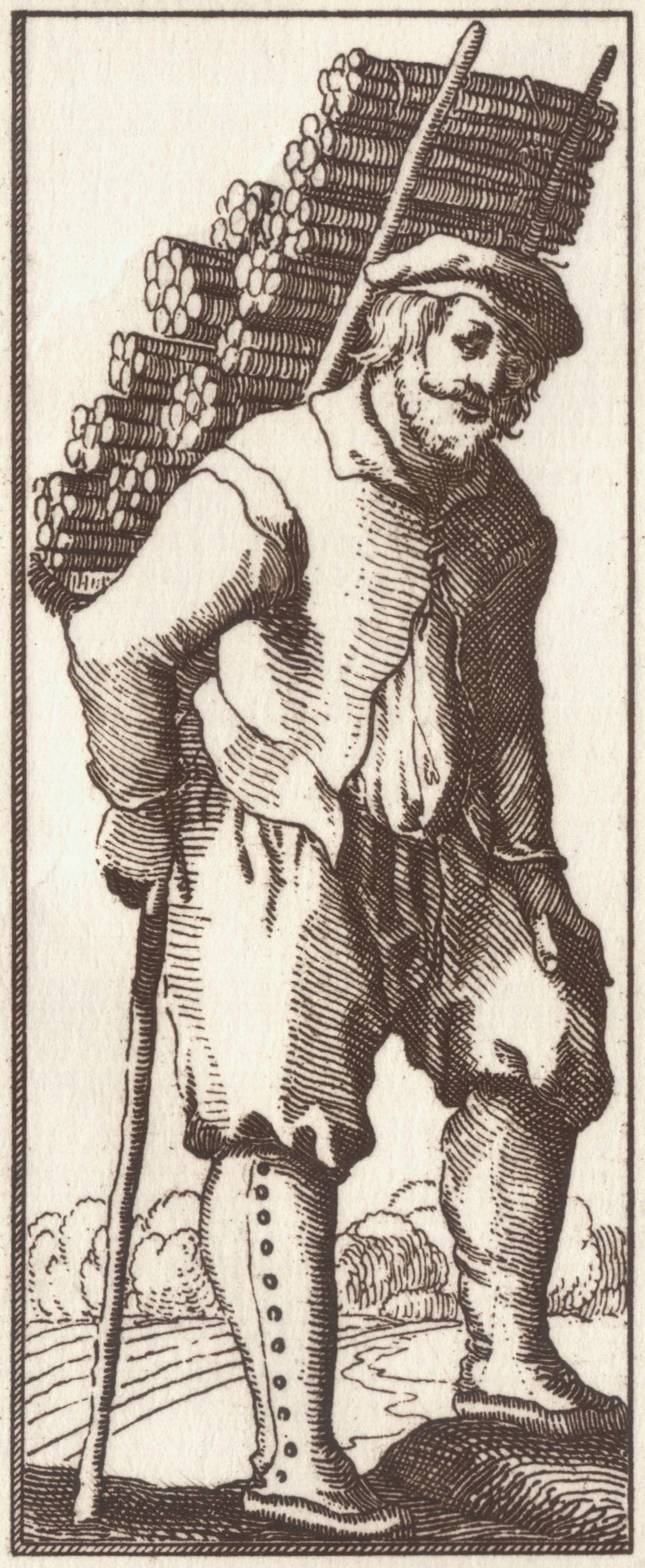 "Rusticus Parisii villageois du Parisis" on the map of Paris by Claes Jansz. Visscher.